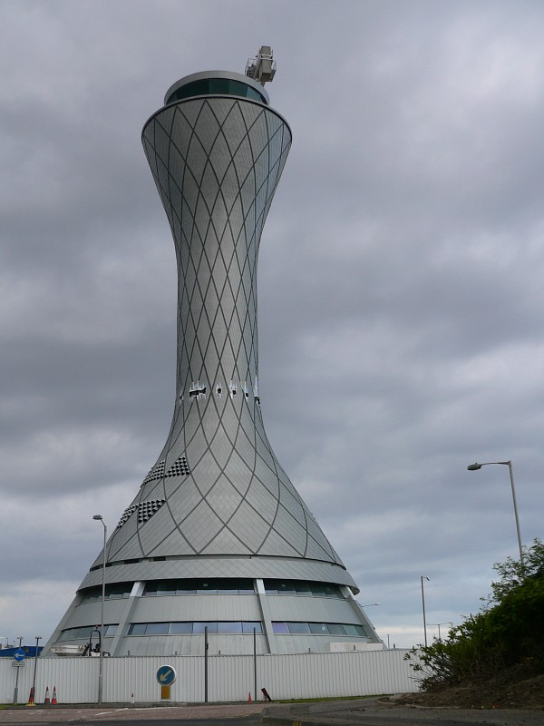 The new control tower at Edinburgh Airport (EDI - EGPH) - more images.